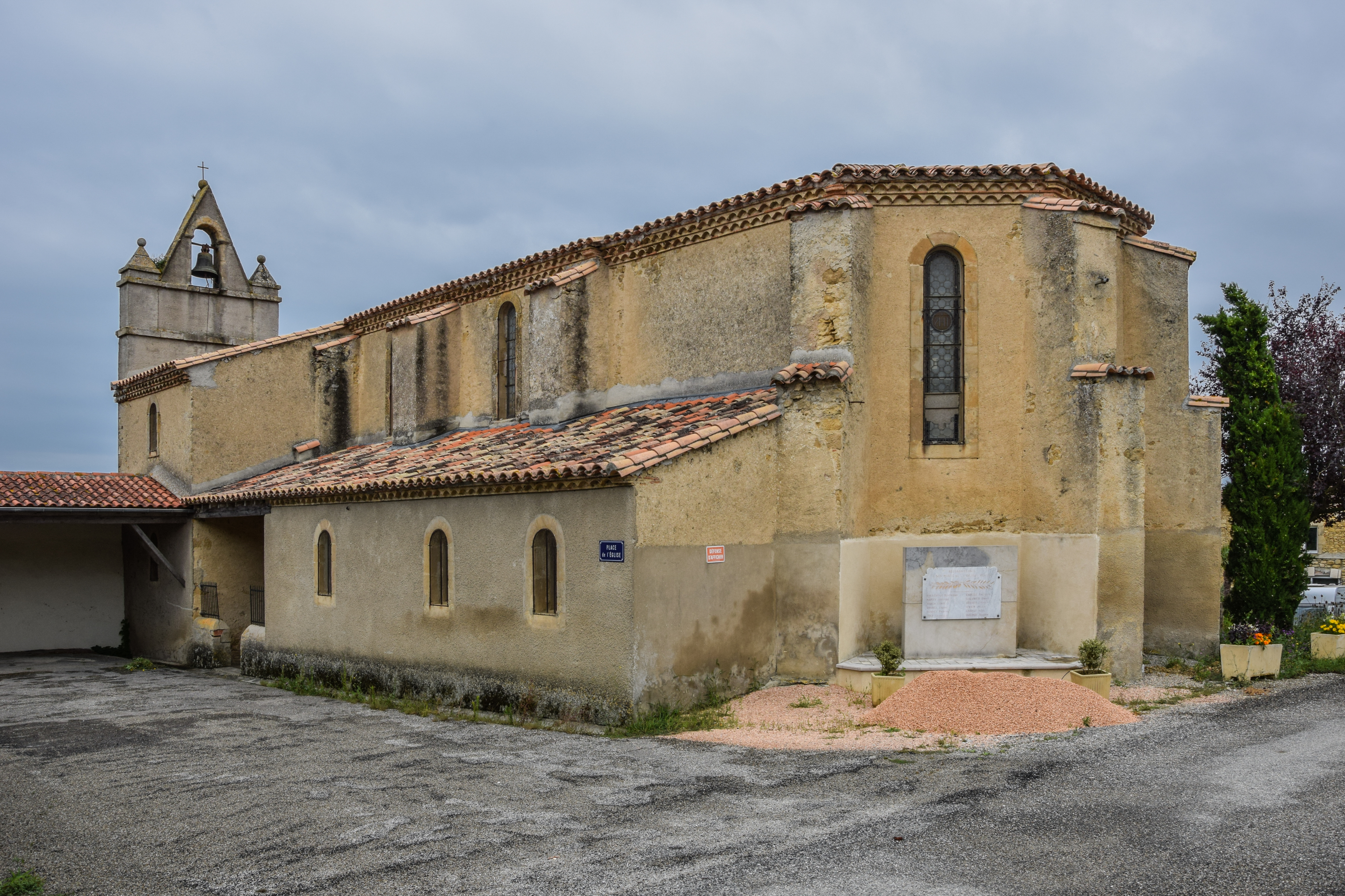 Saint Christopher church in Fonters-du-Razès, Aude, France